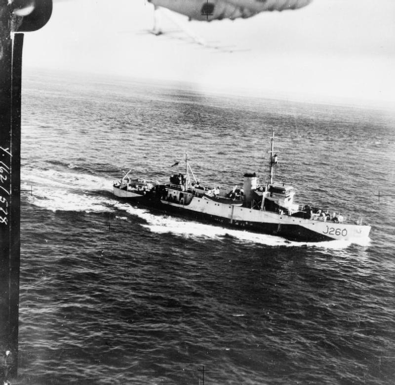 Aerial view of the Canadian Bangor class minesweeper HMCS Goderich (J260). Visible at top centre are two aerial depth charges and a Yagi antenna for Mark II ASV radar.